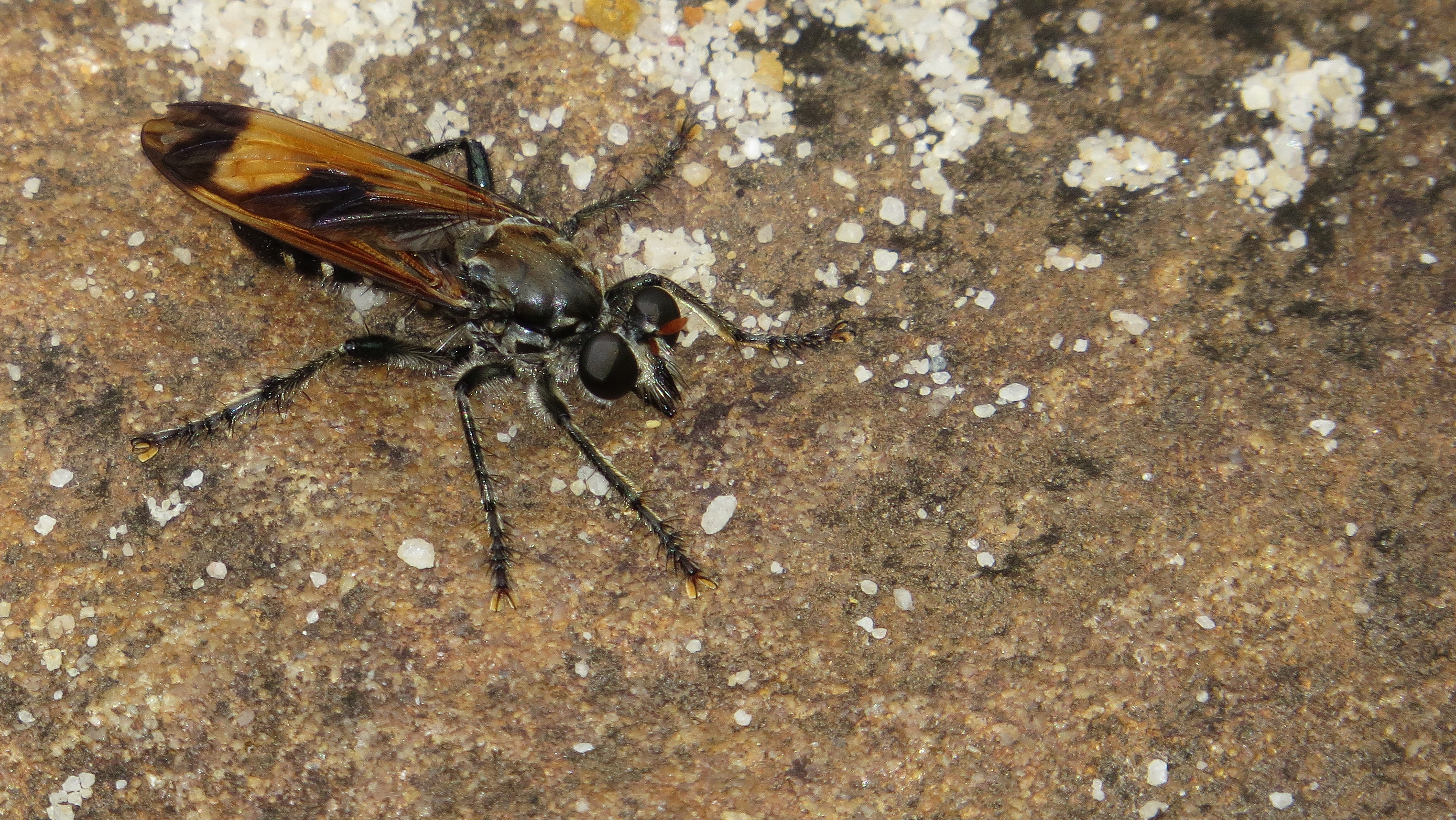 Robber Fly, probably Orthogonis ornatipennis, a species of Asilidae, face view. Heathcote National Park, NSW, Australia, February 2015. Thanks to the use of Greg Daniels Collection at the Australian Museum for the ID.